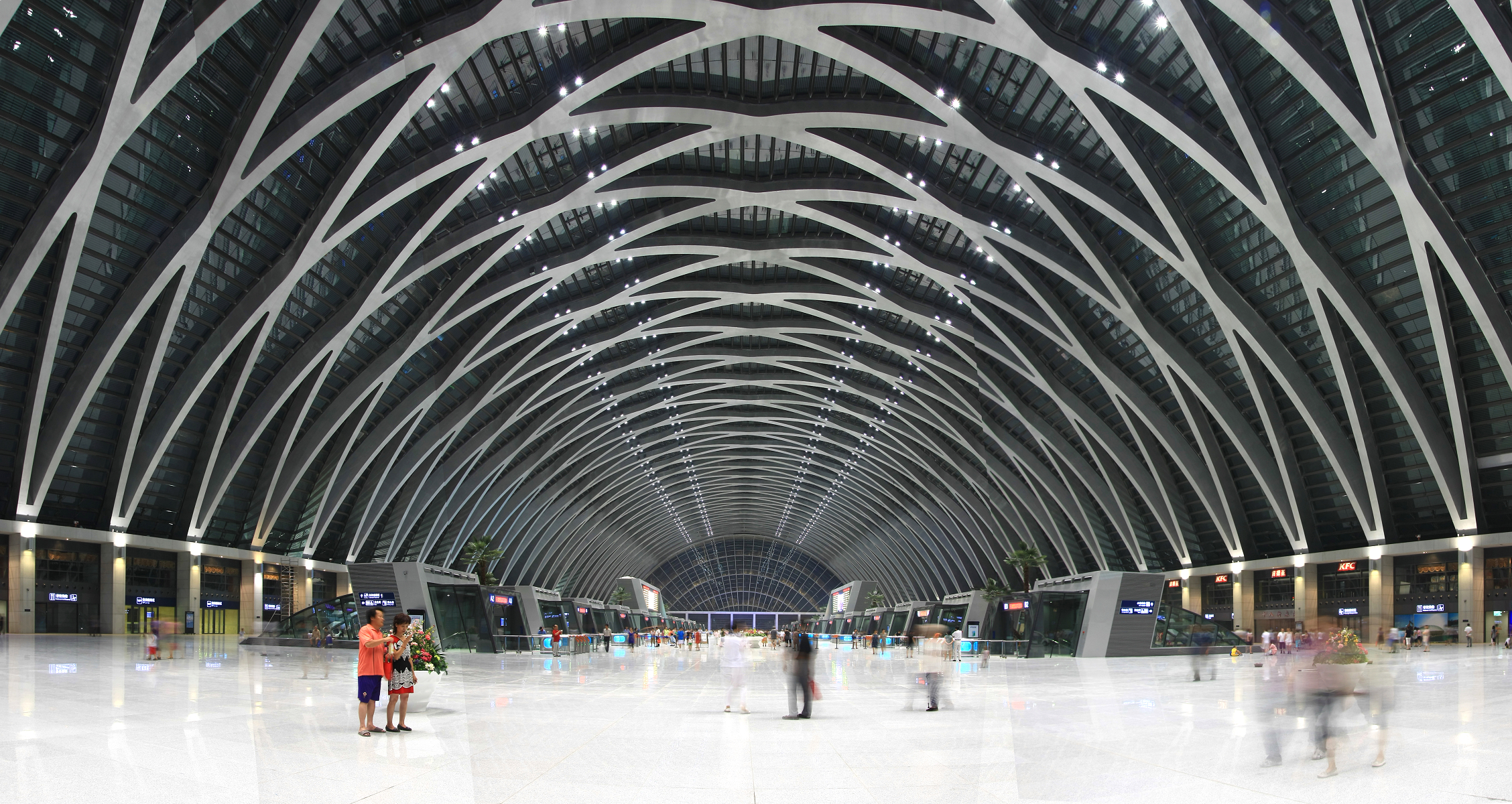 天津西站候车大厅 Waiting Room of Tianjin West Railway Station